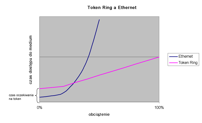 Impact load on frame delay